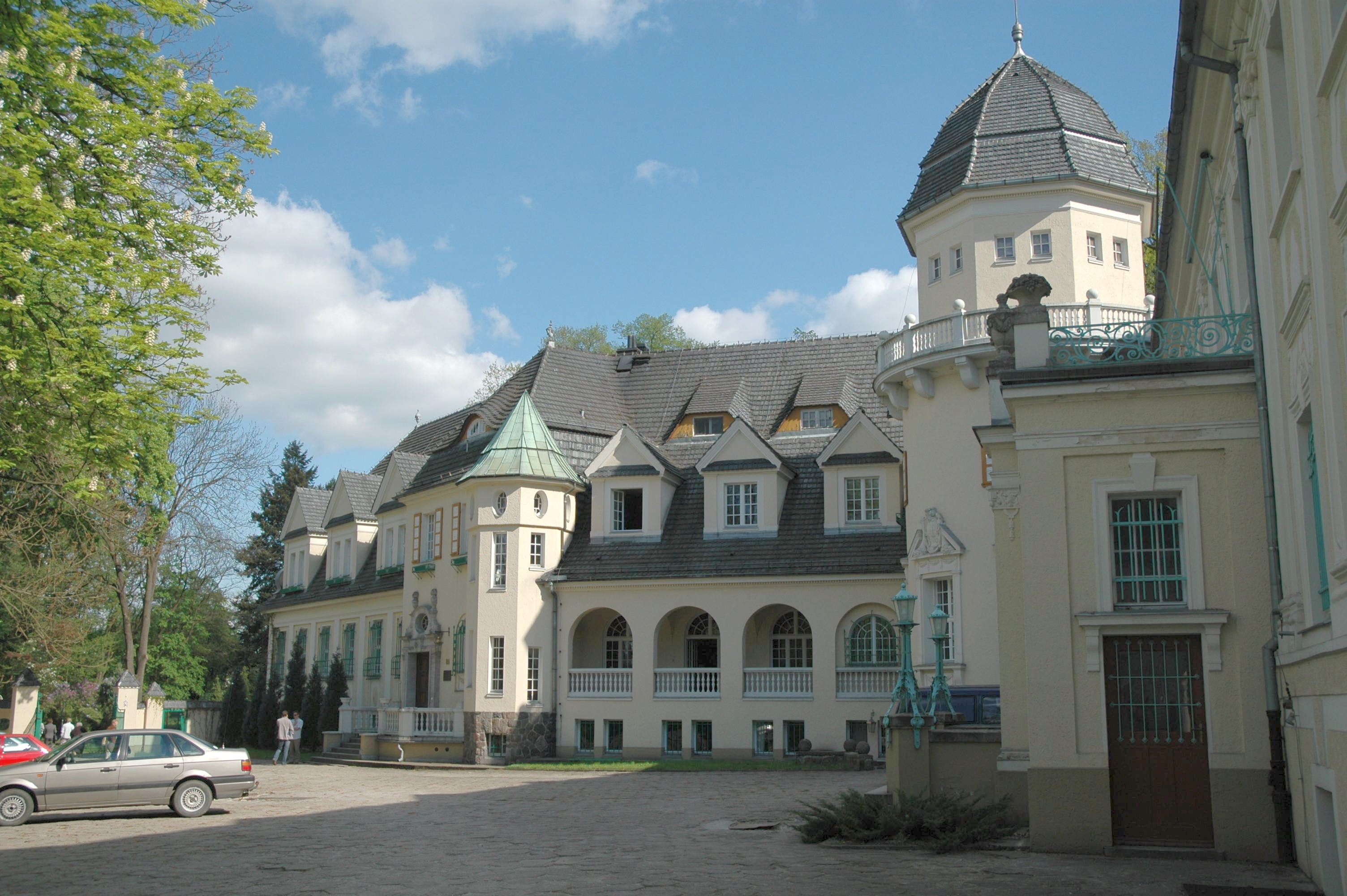 Poland, Bagno - Palace. Now Salvatorian (SDS) High School.